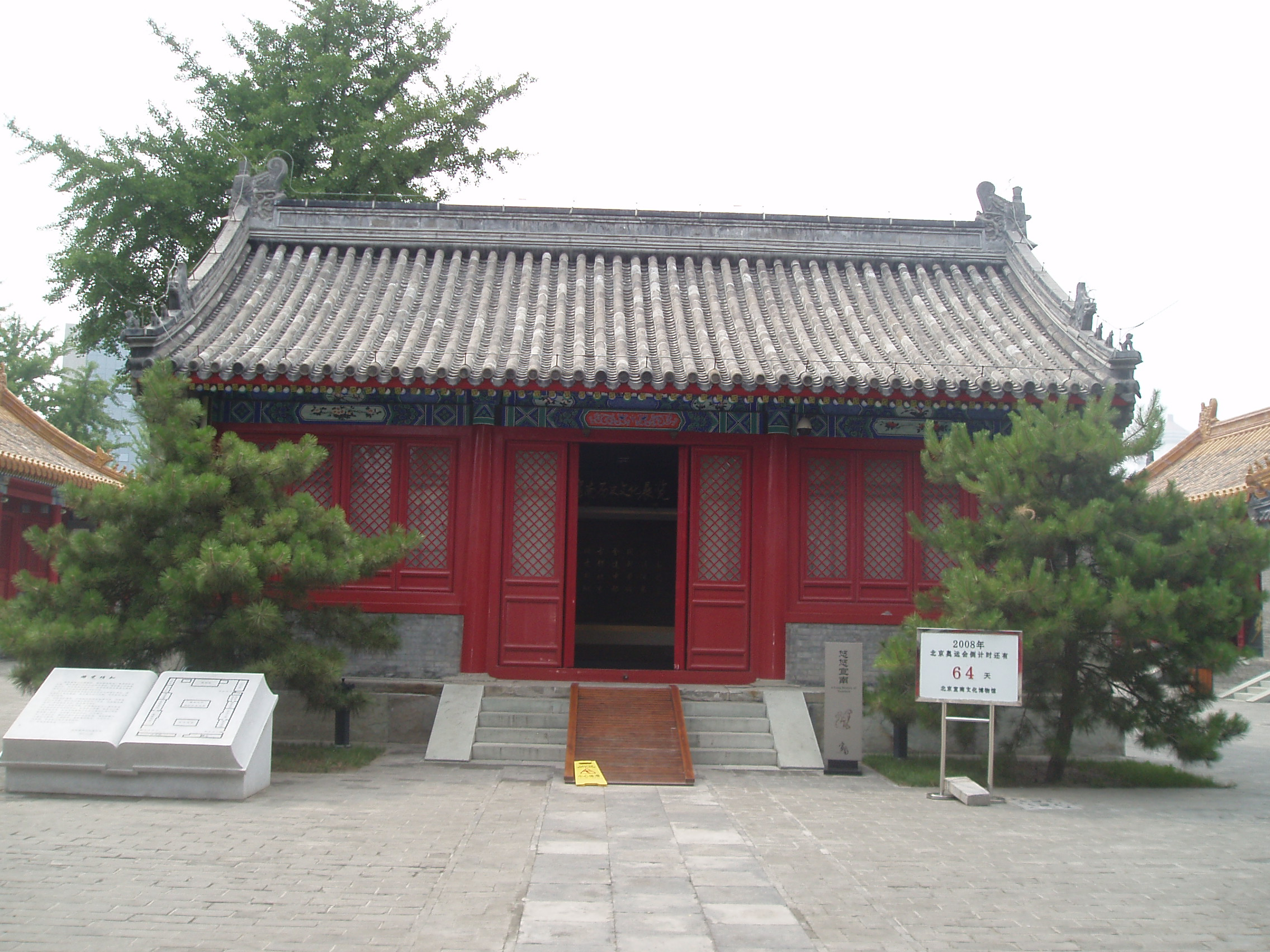 The front hall of the Changchun temple